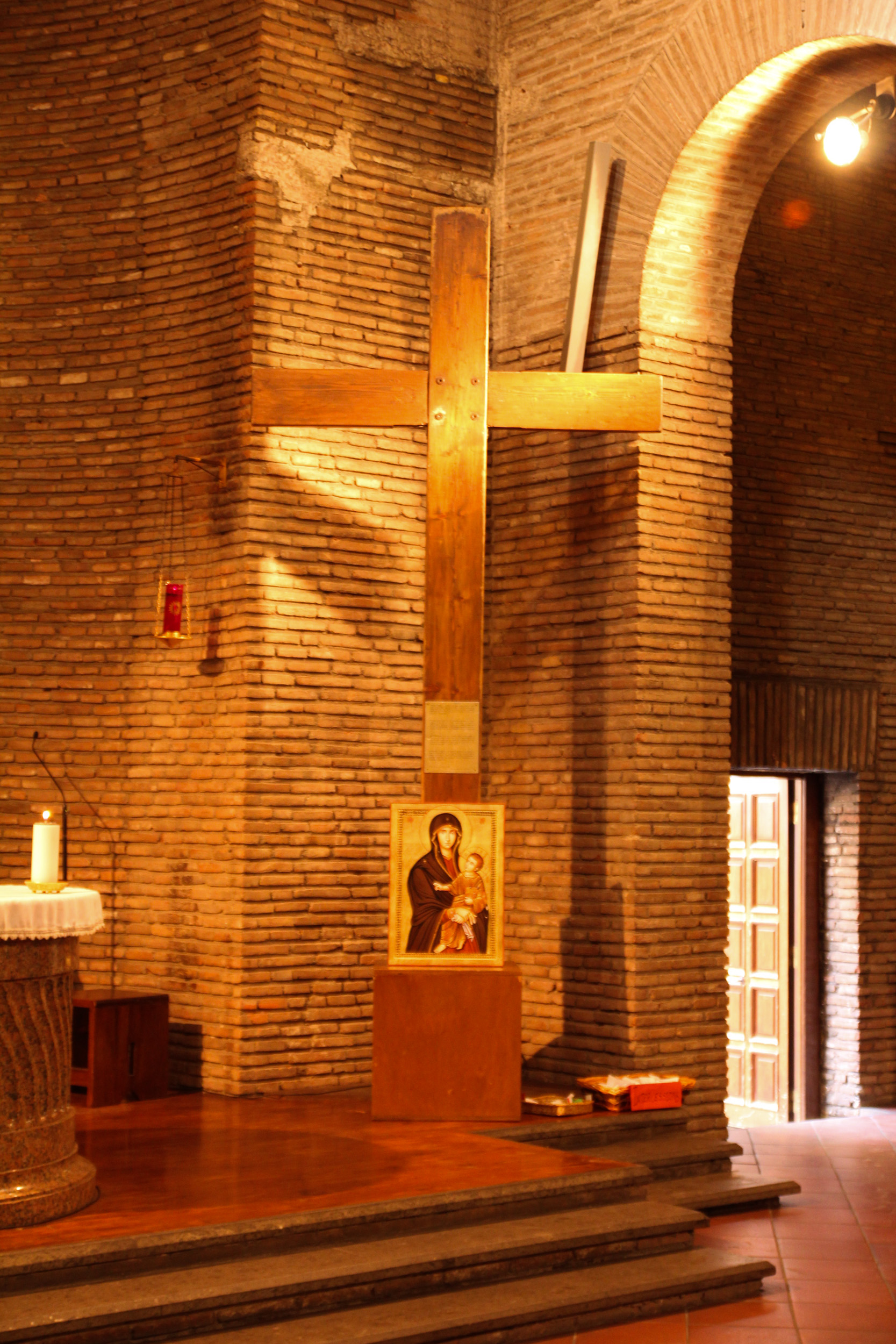 Cross of the World Youth Days in San Lorenzo in Piscius